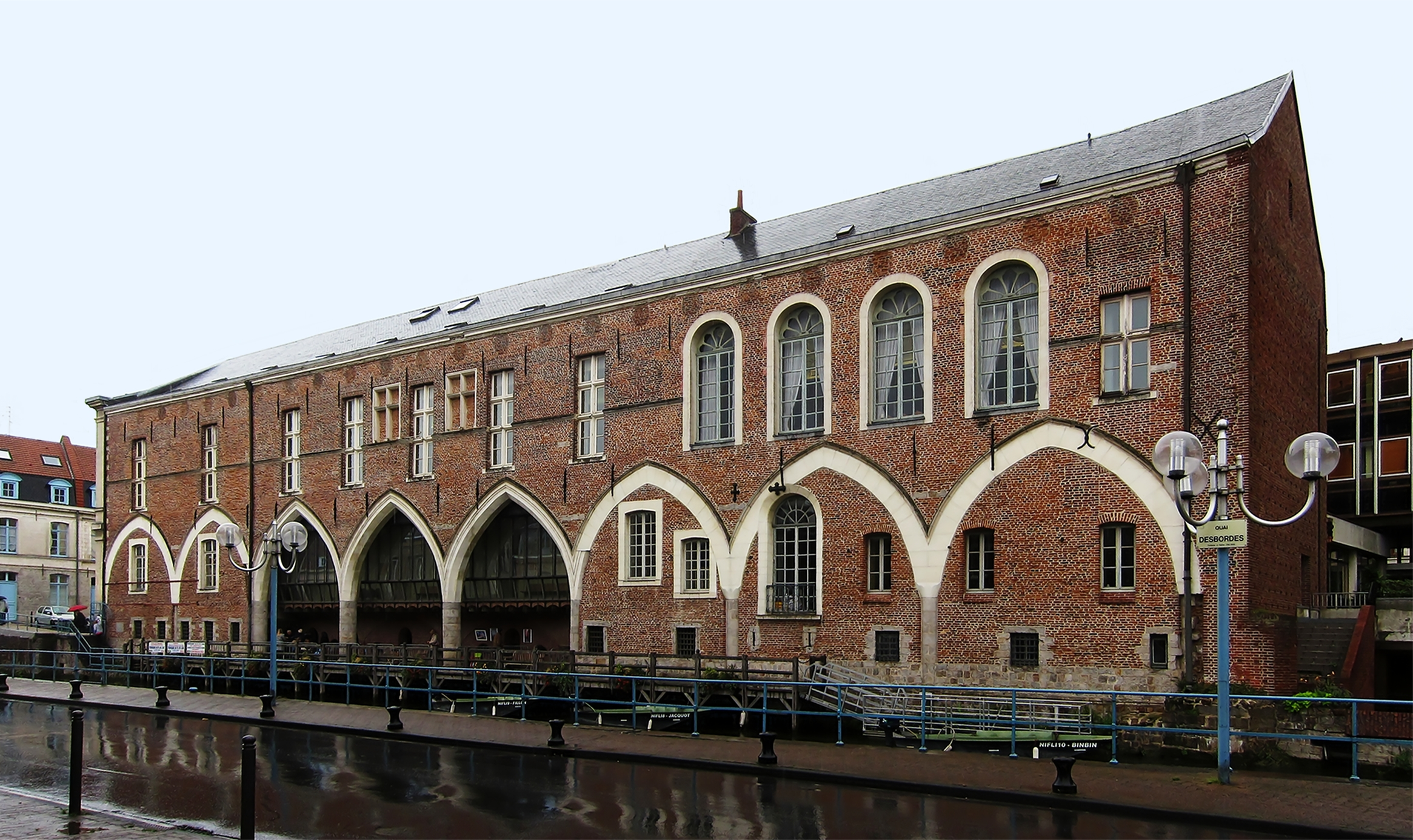 View of the courtyard of Douai from the river Scarpe, 13th century warehouse which became a Marchiennes Abbey refuge in 1433 then Parliament of Flanders in 1714. .